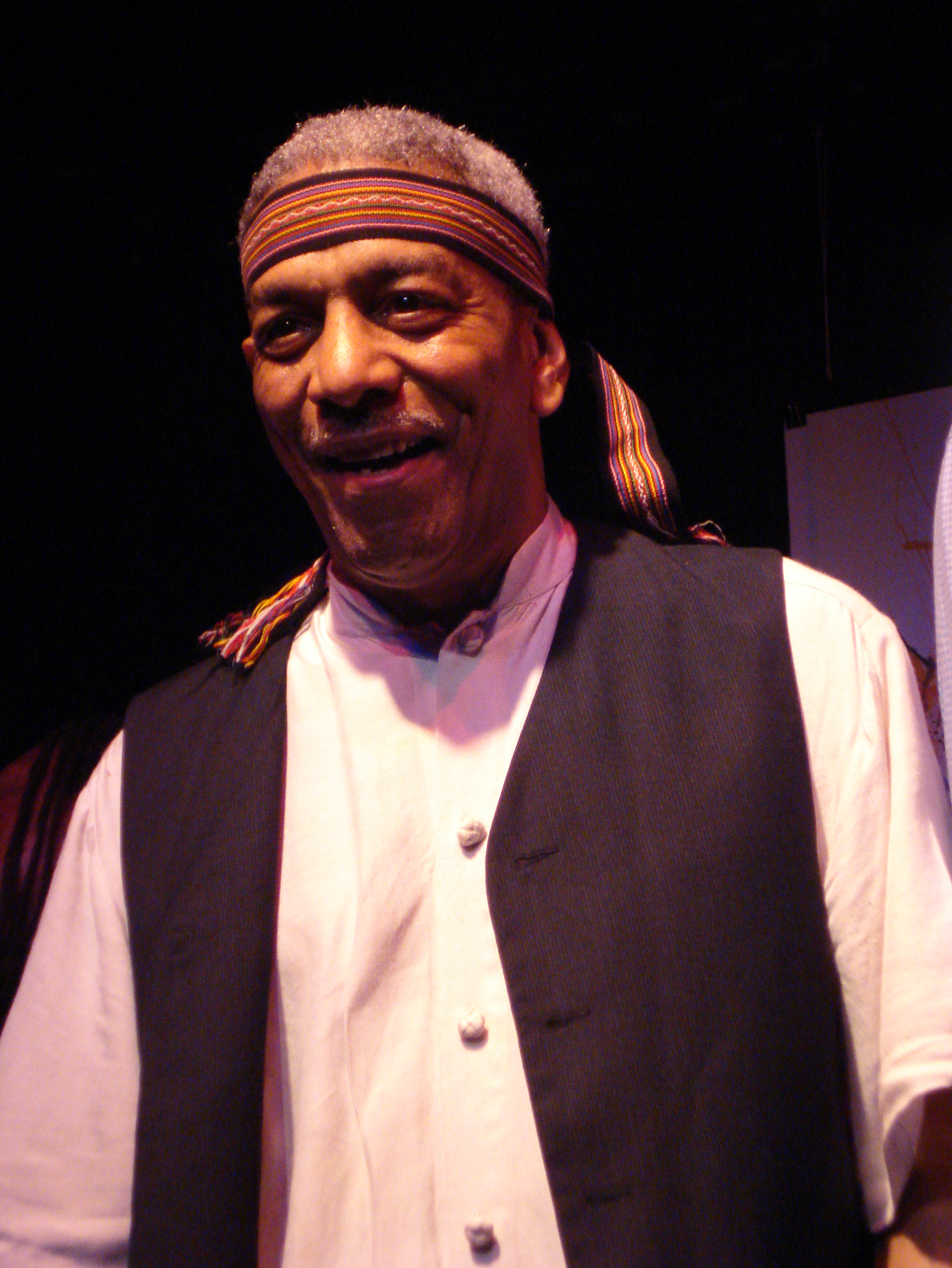 Billy Bang at the Vision Festival, 2008-06-11.